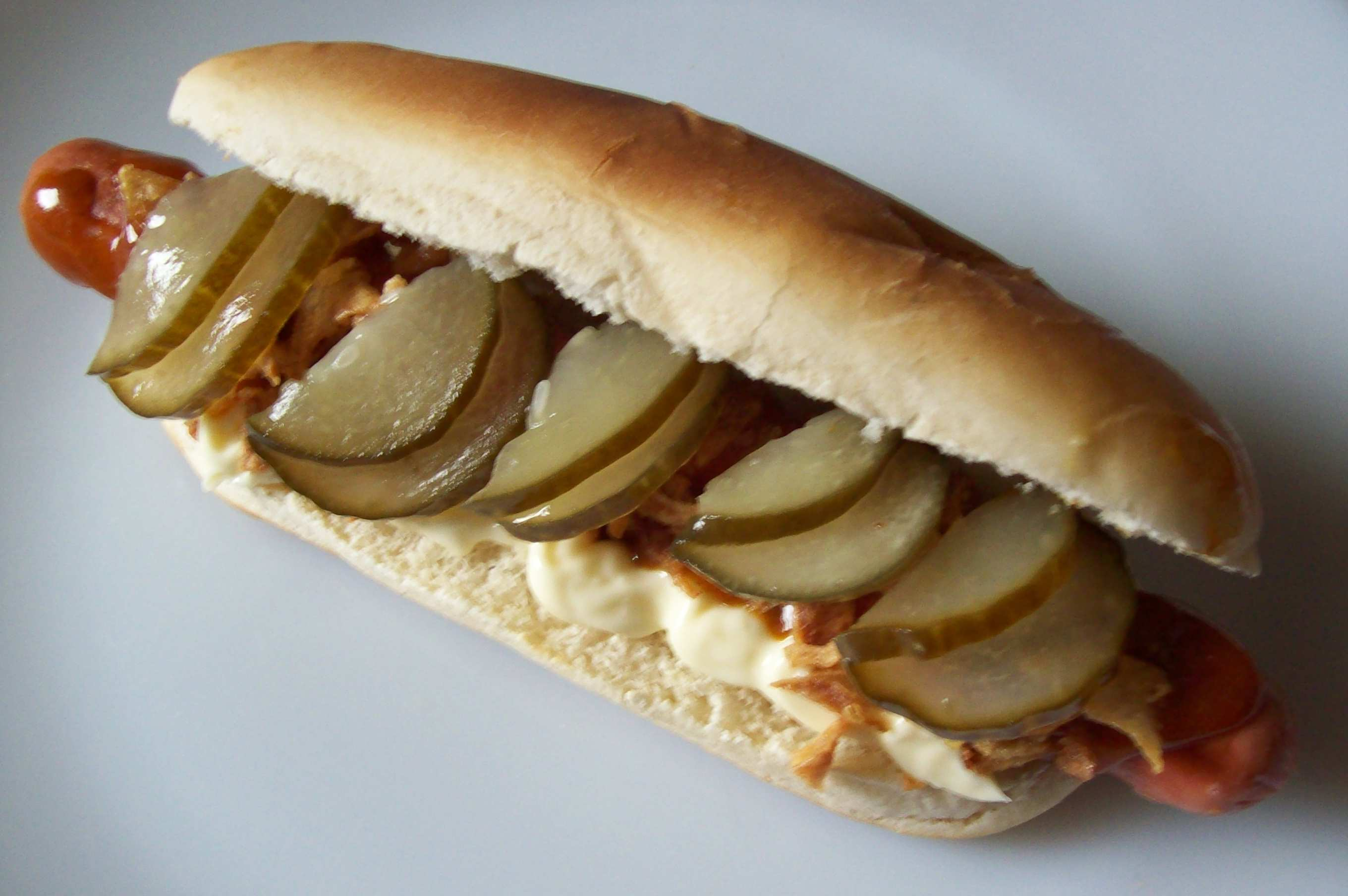 Vegatrian Hot Dog Danish Style. Contains Vegetarian Sausages, Mayonnaise, Hot-Dog-Ketchup, roasted Onion and Cucumber.